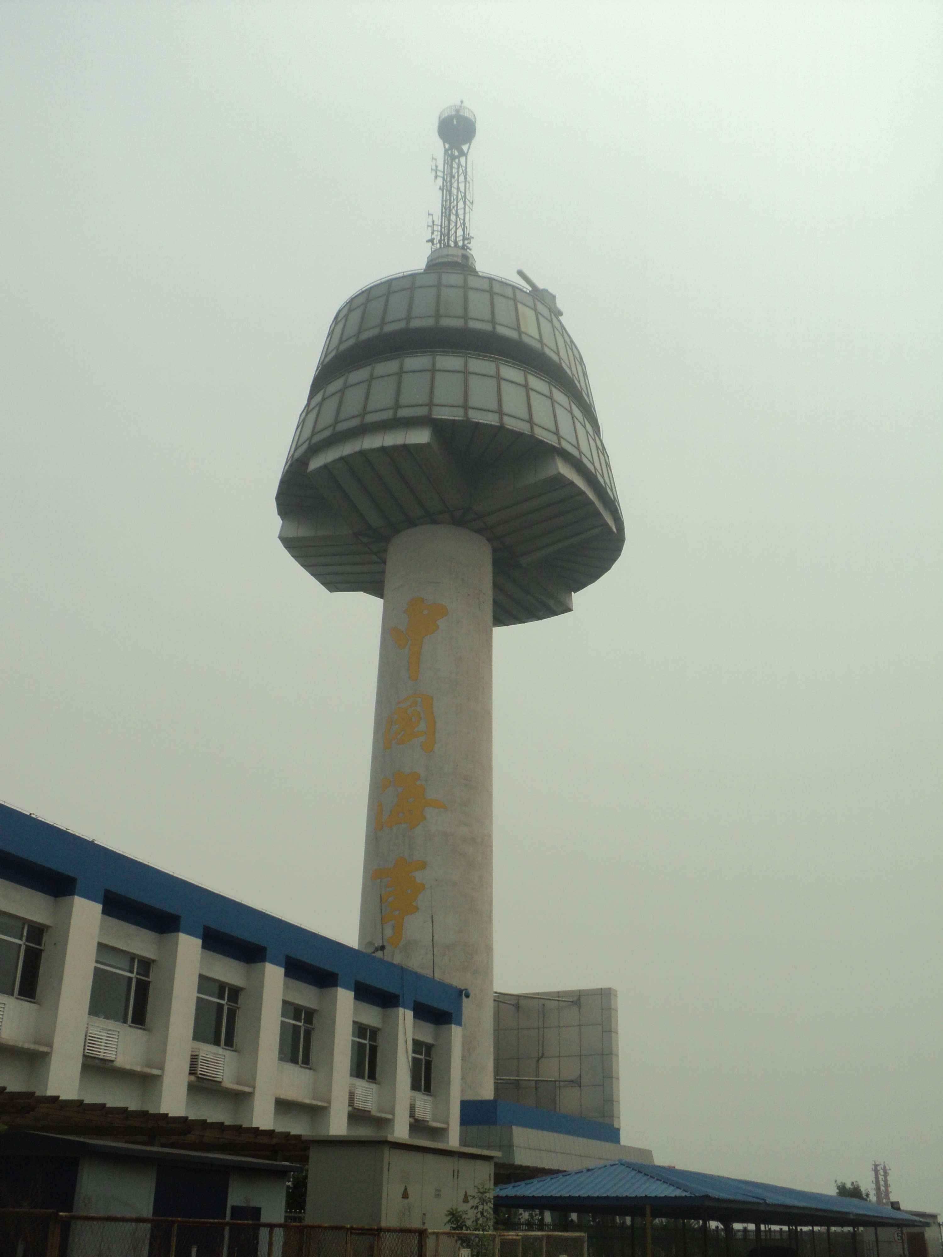 Vessel Traffic Service Tower at the end of the East Pier of the Port of Tianjin. It controls the heavy flow of ships in and out the harbor and access channels.